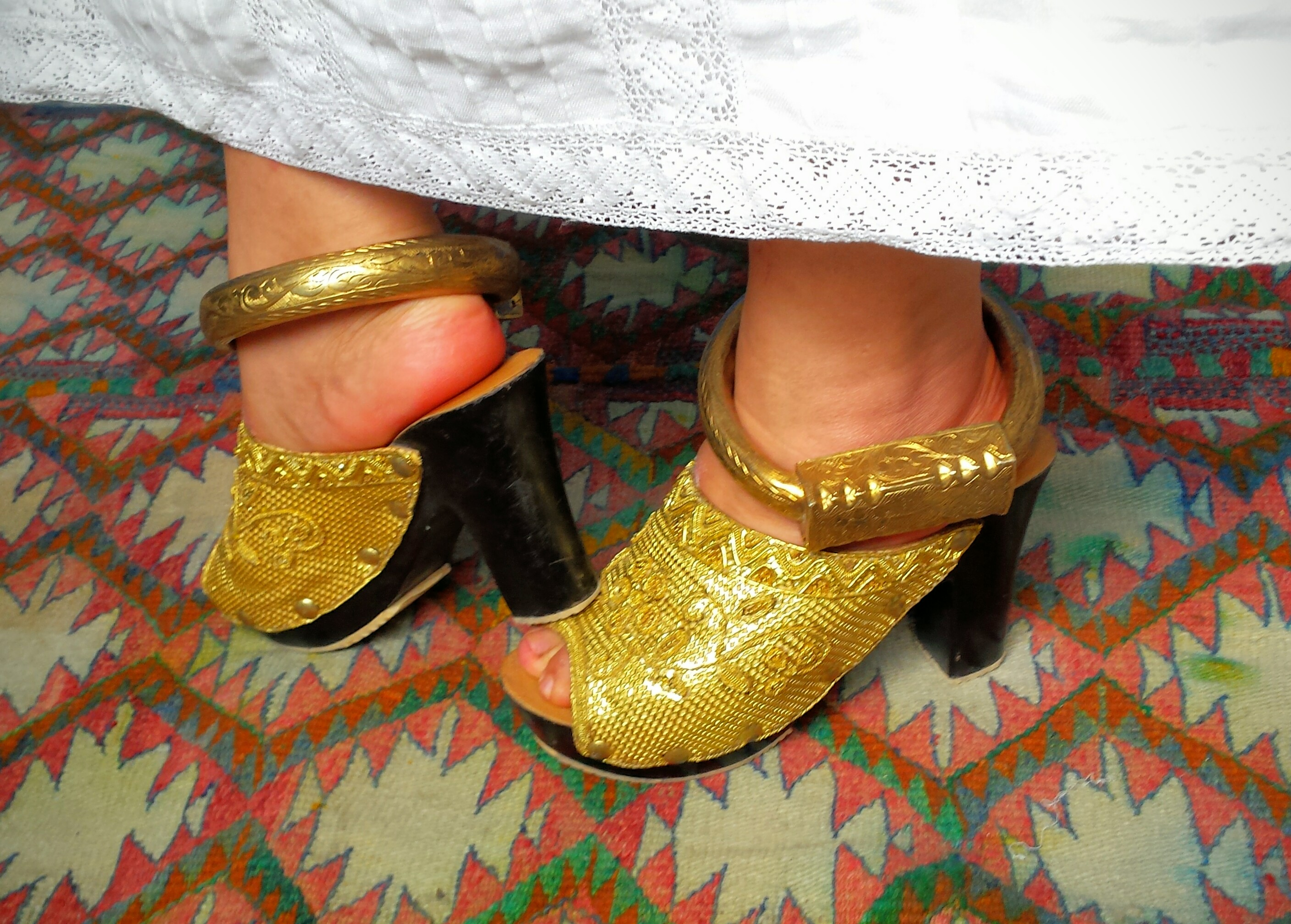 This is an image of Cultural Fashion or Adornment from Tunisia